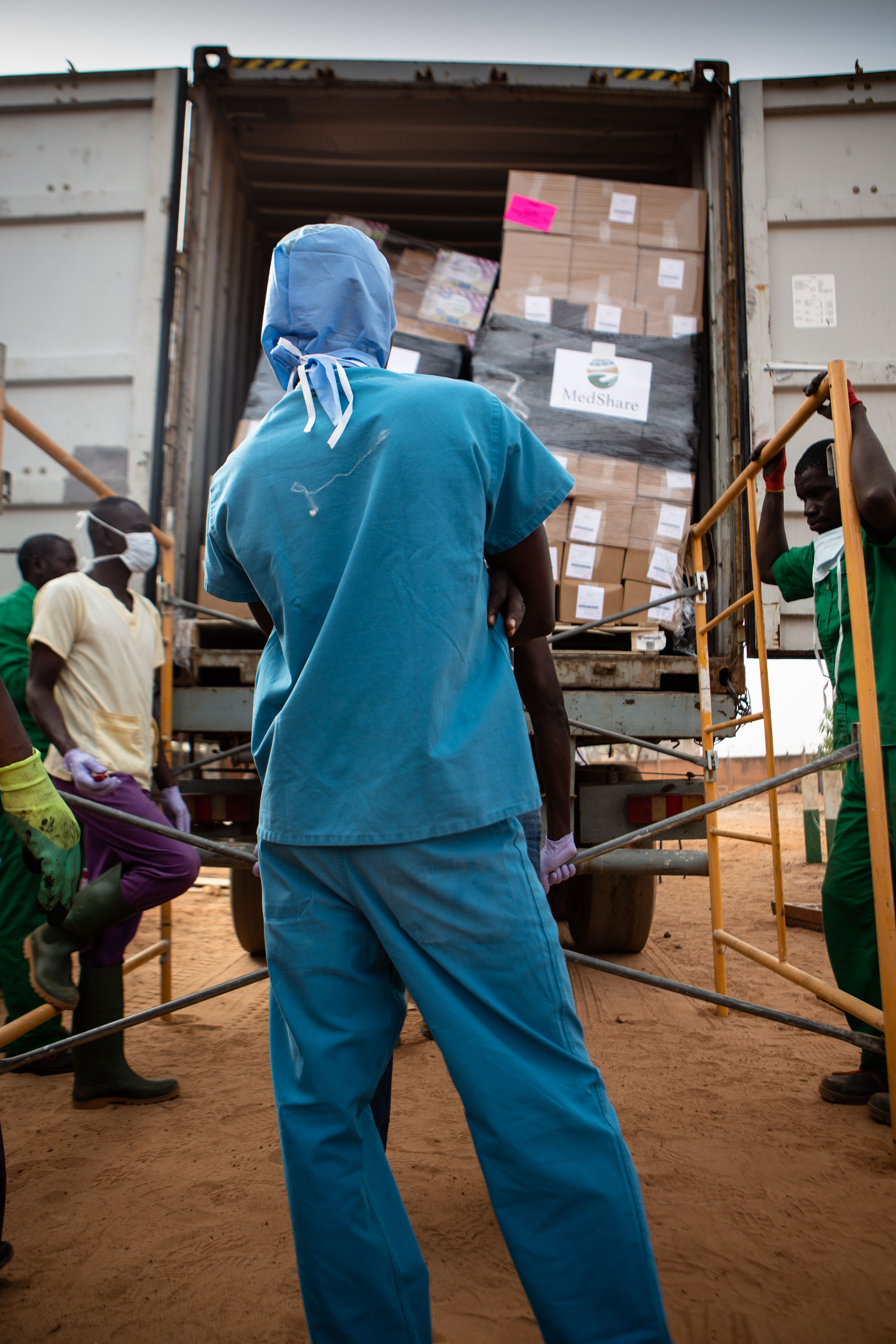 This is an image with the theme "Africa on the Move or Transport" from: Niger